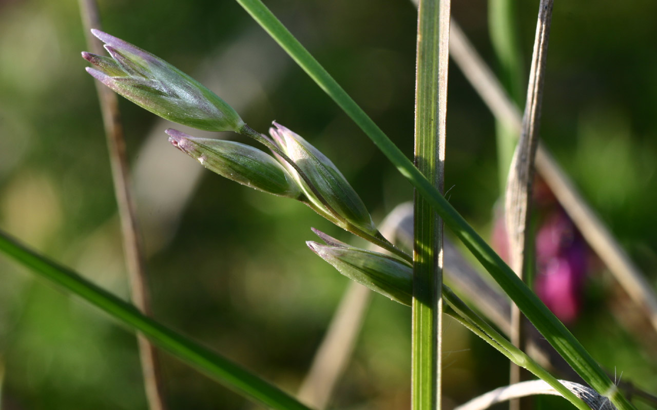 Danthonia decumbens